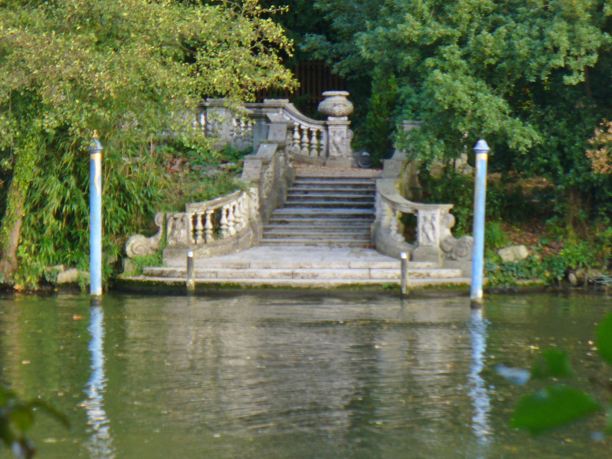 See title. To the left there is a short path to Spring Cottage.